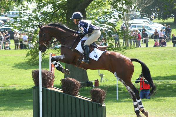 Hawley Bennett (CAN) riding round Badminton